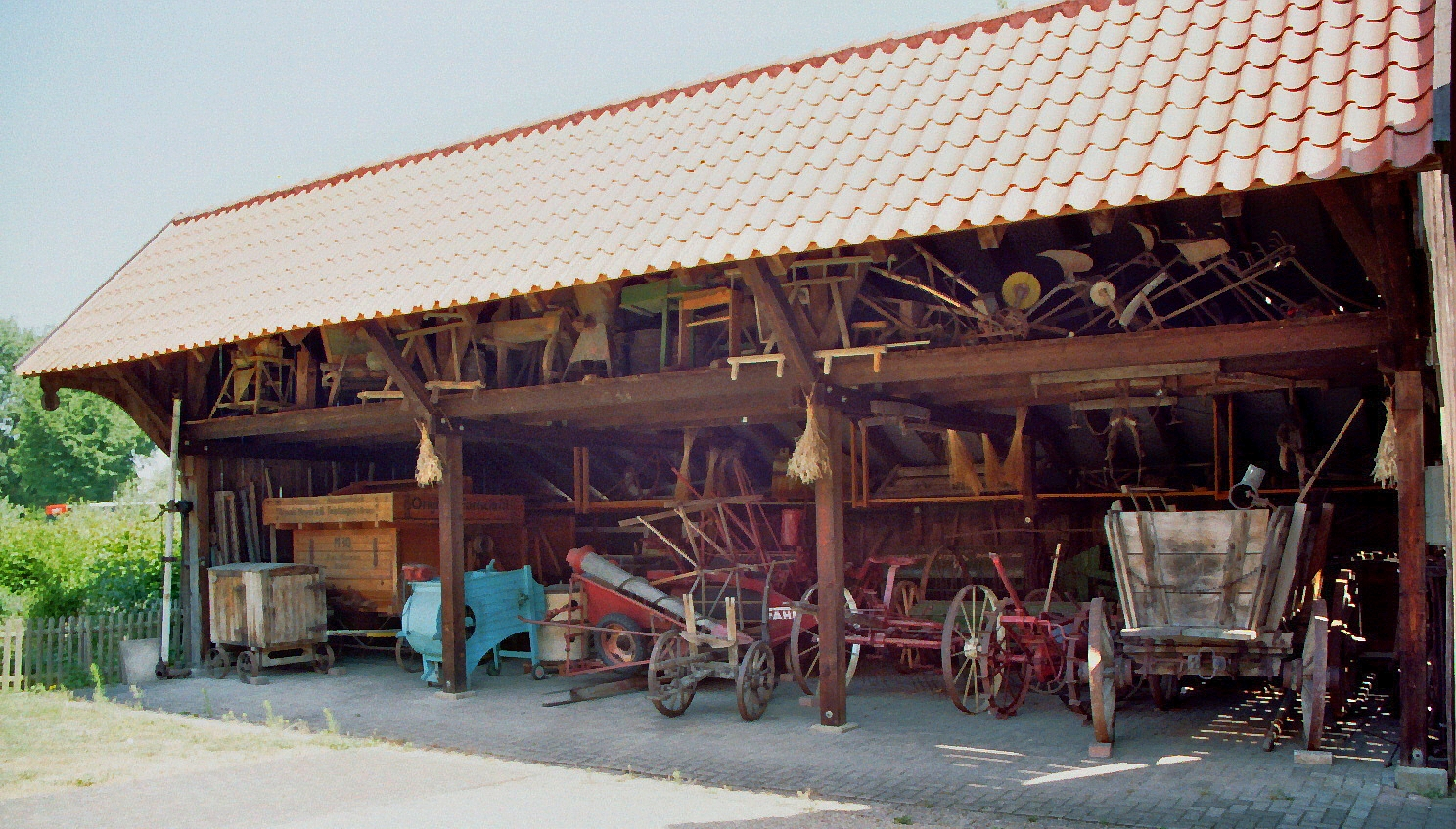 Carriage house of the Schultenhof in Mettingen, Kreis Steinfurt, North Rhine-Westphalia, Germany.